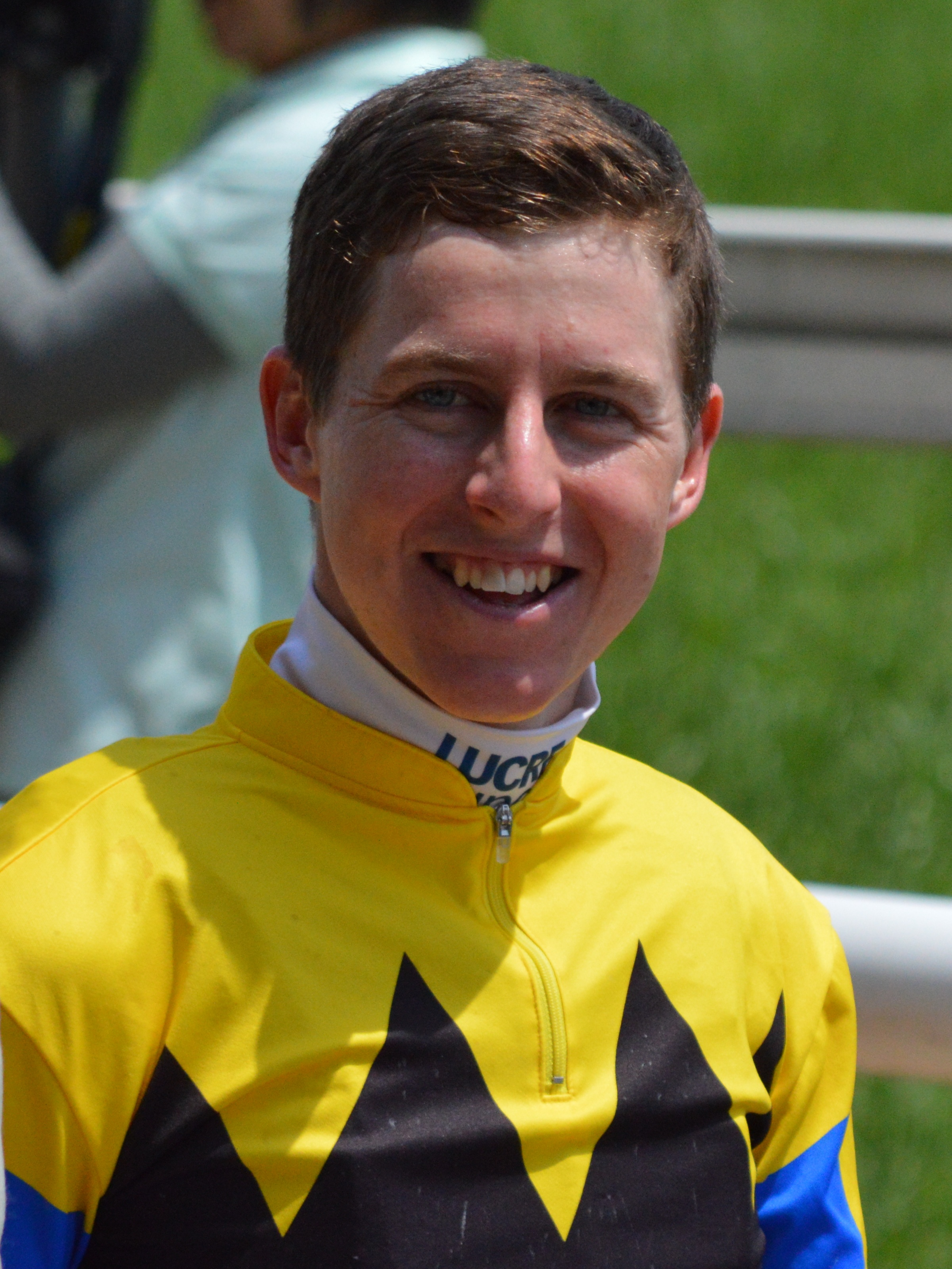 ダミアン・レーン騎手（2019年5月26日東京第6競走口取り）Damian Lane Jockey at Tokyo Racecourse.